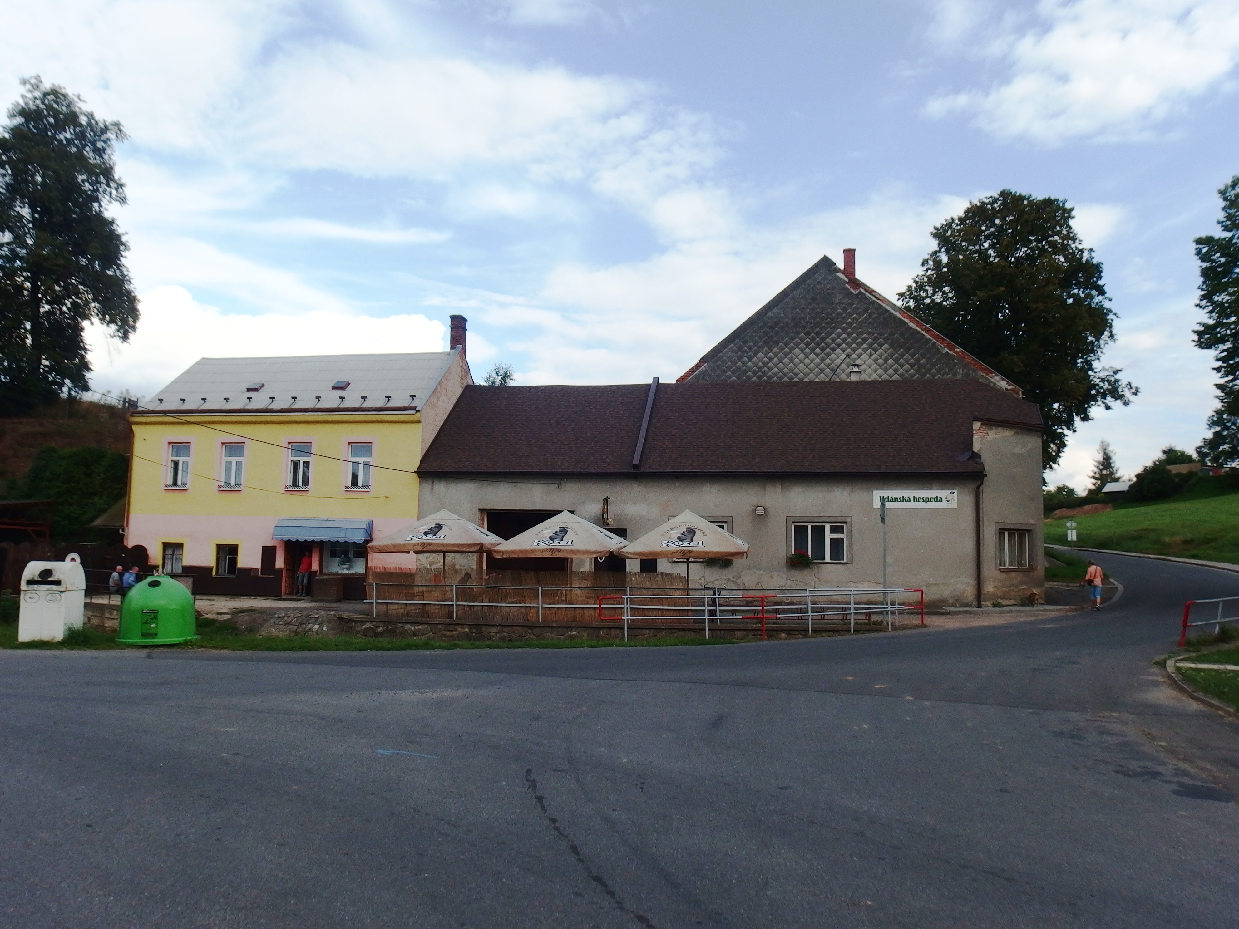 Moravská Třebová, Svitavy Distreict, Czech Republic, part Udánky.